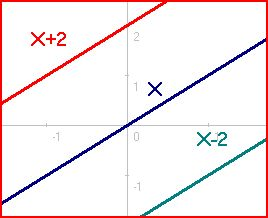 a graph of a system of 3 equations (my third)